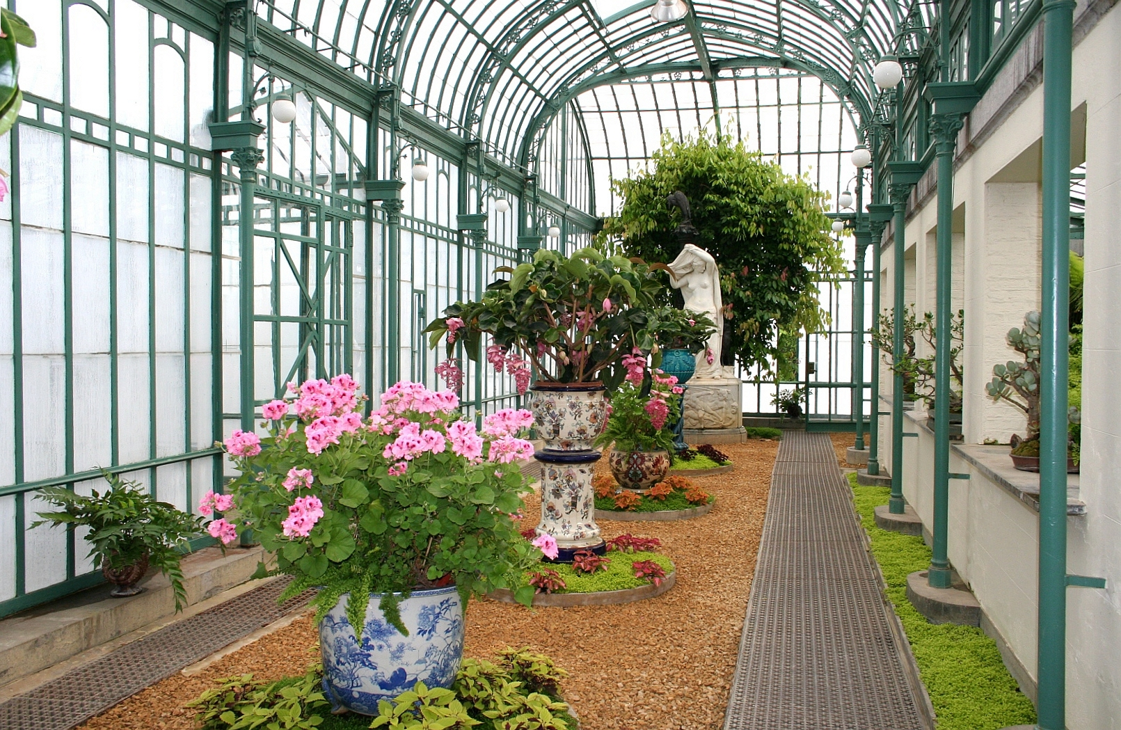 Laken (Belgium), the Royal Greenhouses of Balat (1874-1890).